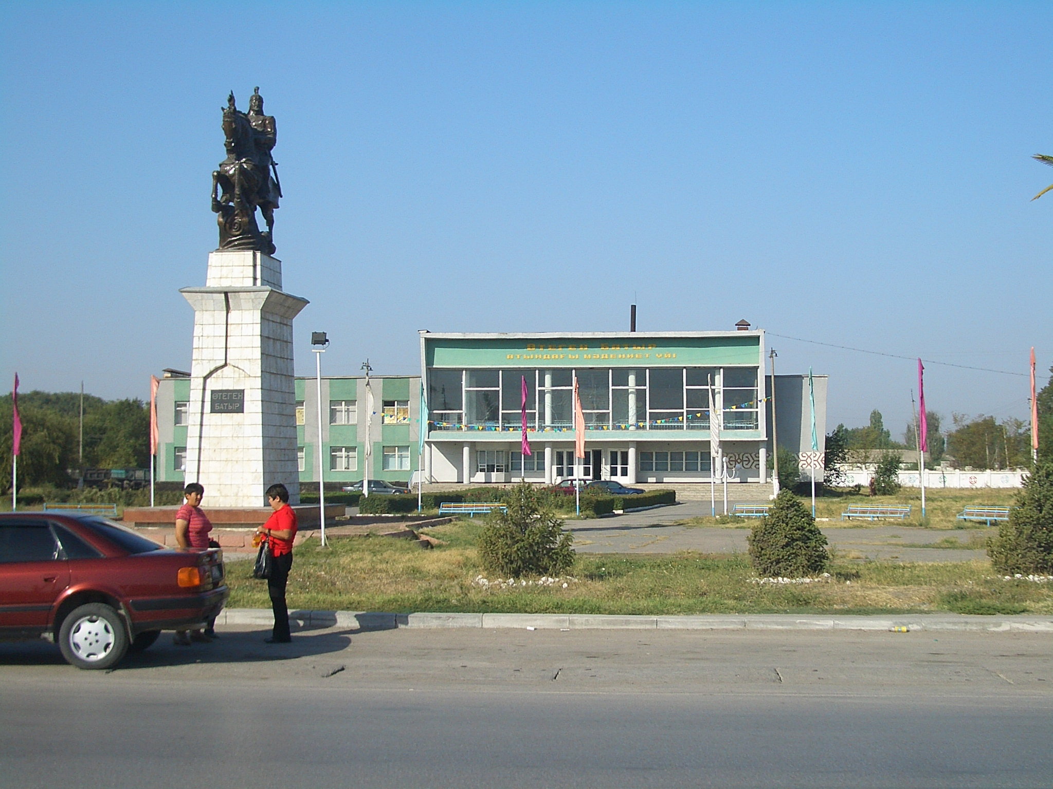 The House of Culture in Korday.